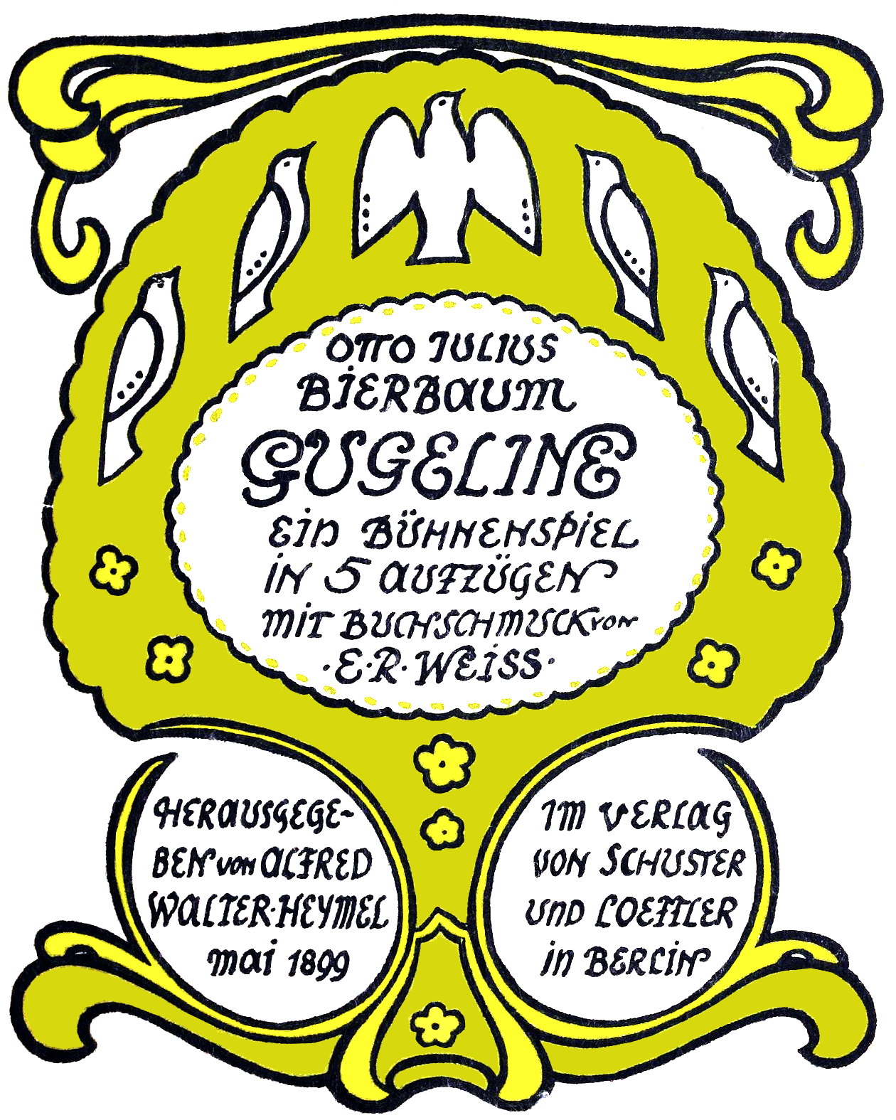 Ludwig Thuille - Gugeline - cover of the original text book - Berlin 1899 (the colors are not original)